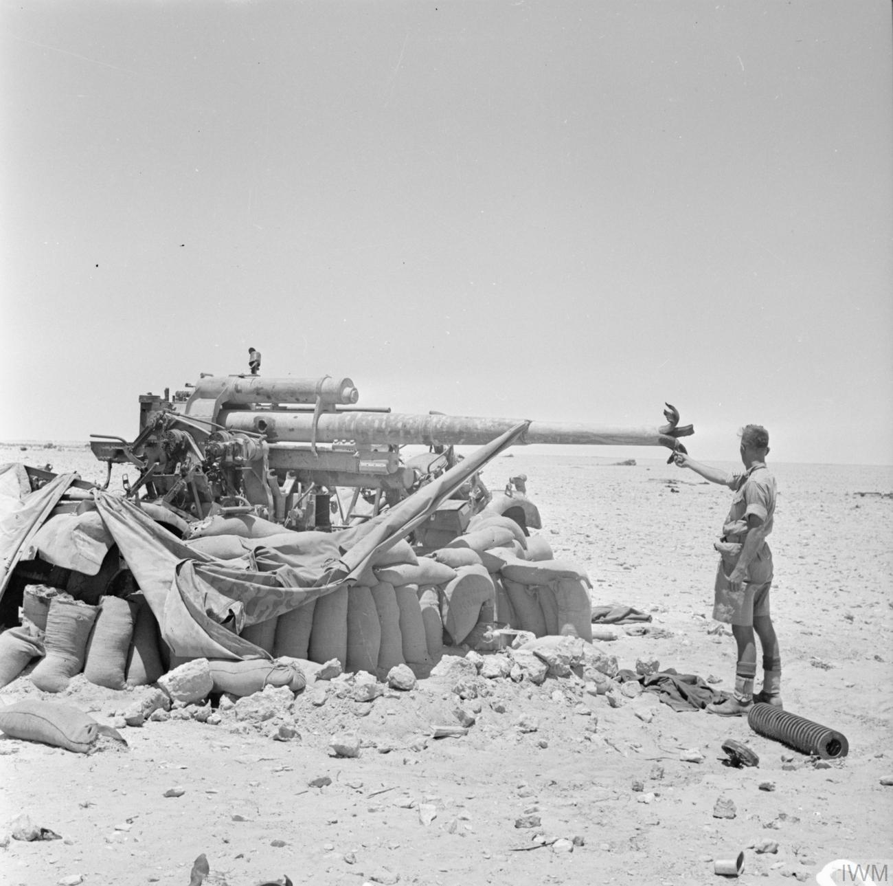 The British Army in North Africa 1942 A German 88mm anti-tank gun captured and destroyed by New Zealand troops near El Alamein, 17 July 1942.